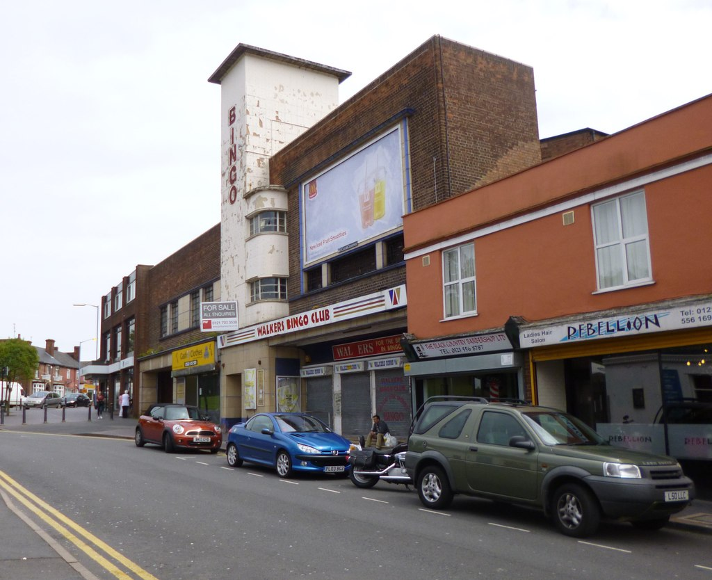 115 Walsall Street, Wednesbury, Former Wednesbury Cinema owned by Associated Provincial Picture Houses, renamed Silver Cinema, and then Walkers Bingo Club. Defunct in 2010.